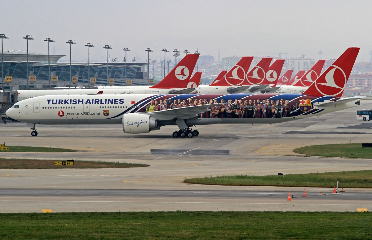 Turkish Airlines Boeing 777-300ER FCBarcelona Livery